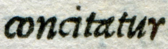 Ligatures in an italic printed by Aldus Manutius in 1519